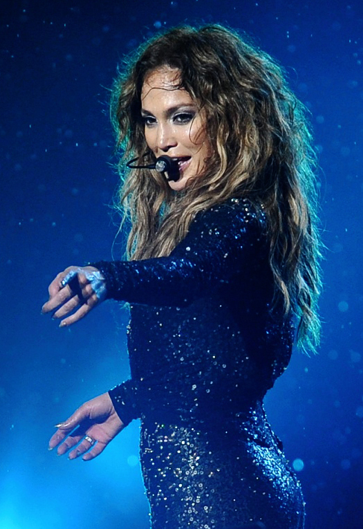 Kuala Lumpur, 03/12/2012 Jennifer Lopez Dance Again World Tour Live in Malaysia 2012 at Stadium Merdeka..Pic Firdaus Latif